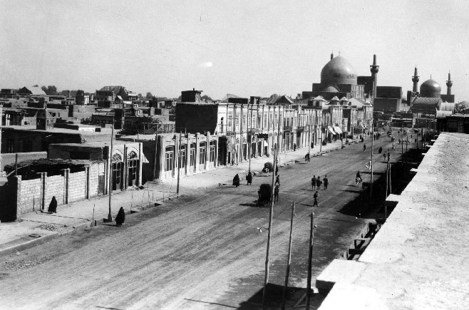 Imam Reza shrine and Goharshad Mosque, view from Tehran st - 1935